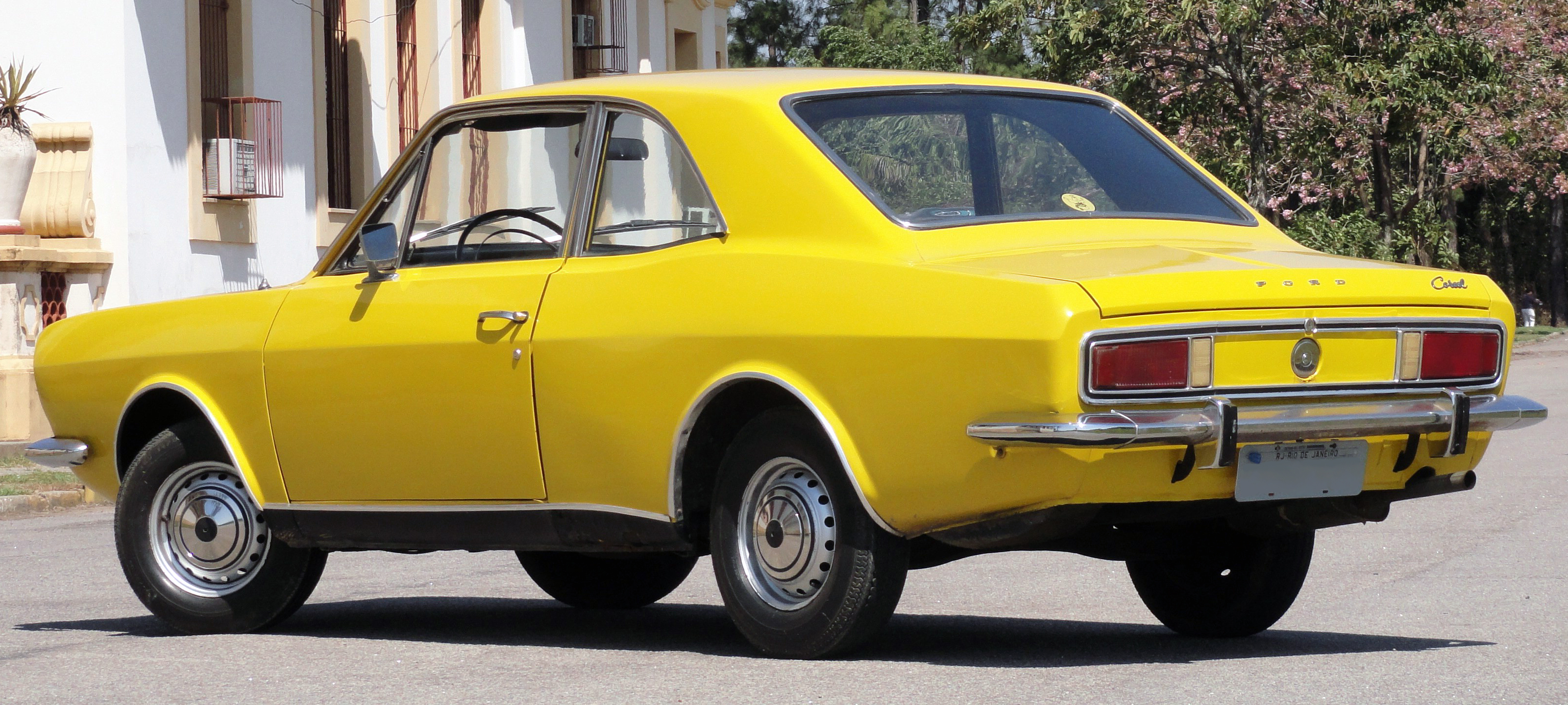 1973 Ford Corcel Luxo - rear view of first year of facelifted first generation Corcel